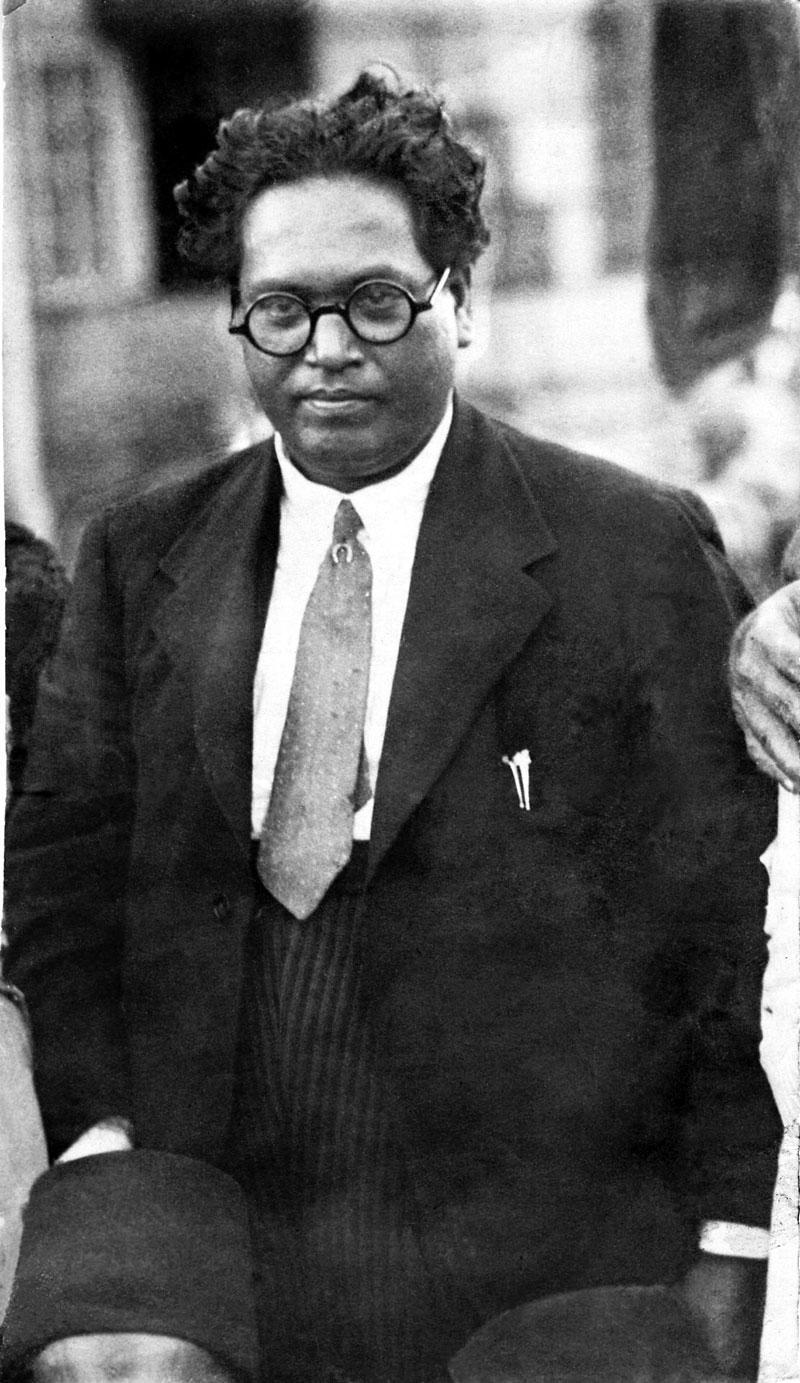 Babasaheb Ambedkar as a Lawyer in Bombay High Court